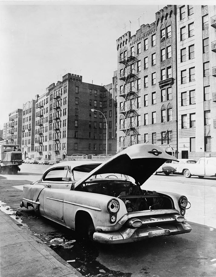 Photograph of Macombs Road and Cromwell Ave in Morris Heights, the Bronx, circa 1964